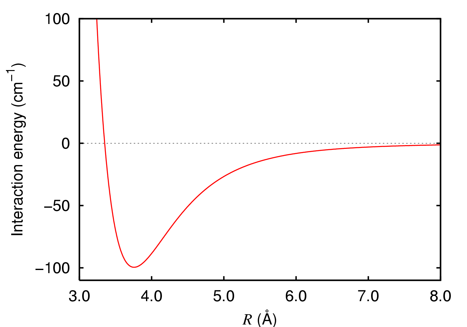 Interaction energy of argon dimer. Empirical potential taken from R. A. Aziz, J. Chem. Phys., vol. 99, 4518 (1993).